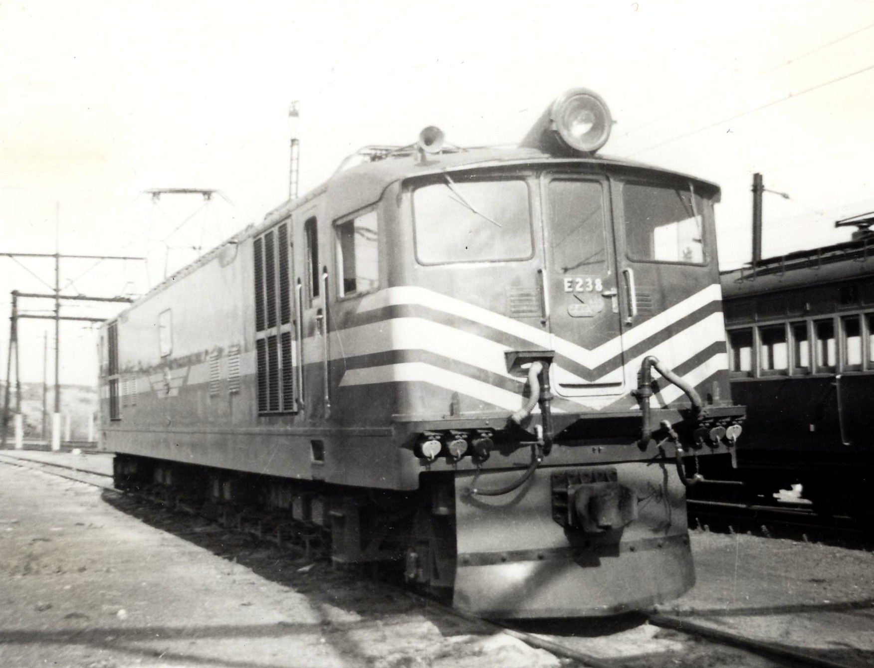 SAR Class 4E E238 Builder's Number: NBL 26878Location: Salt River depot, Cape Town